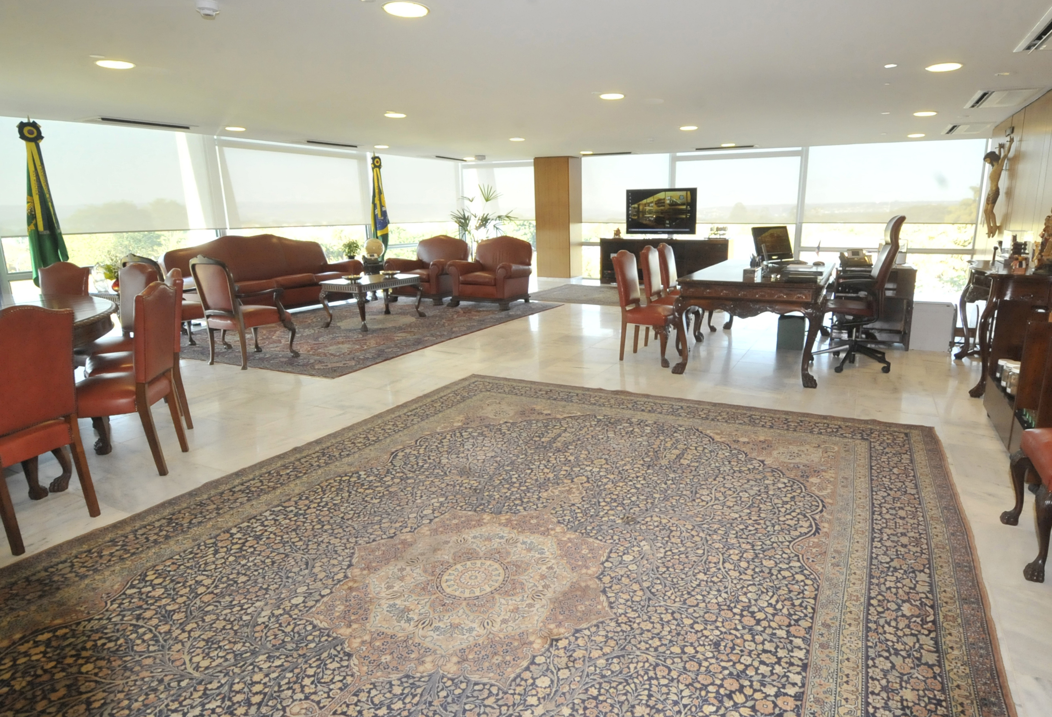 Presidential Office of the Palácio do Planalto, Brasília, Brazil.